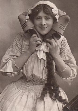 Photo of Isabel Jay in Miss Hook of Holland 1906